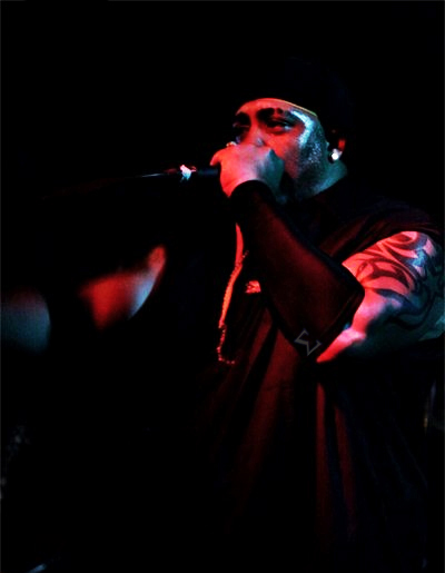 Live in Action